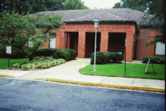 Picture of the Fairfax County Public Library branch in McLean Virginia